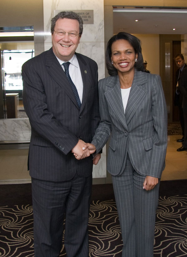 Alexander Downer and Condoleezza Rice.